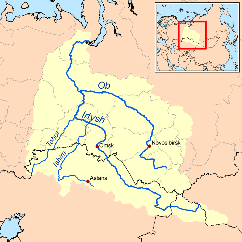 This is a map of the Ob River Watershed (at the confluence with the Irtysh river). Created based on USGS data.